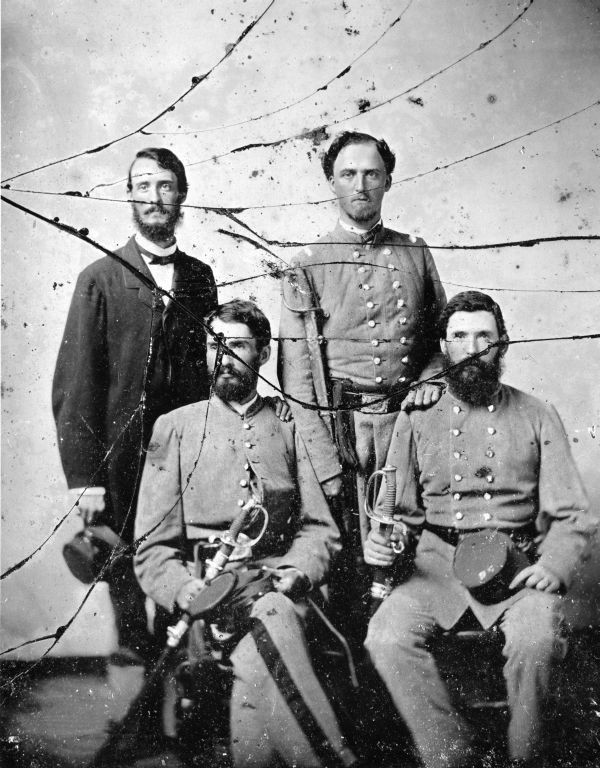 Portrait of Theodore Washington Brevard (back right), and other Confederate officers - Tallahassee, Florida. State Library and Archives of Florida; Image Number: PT00280